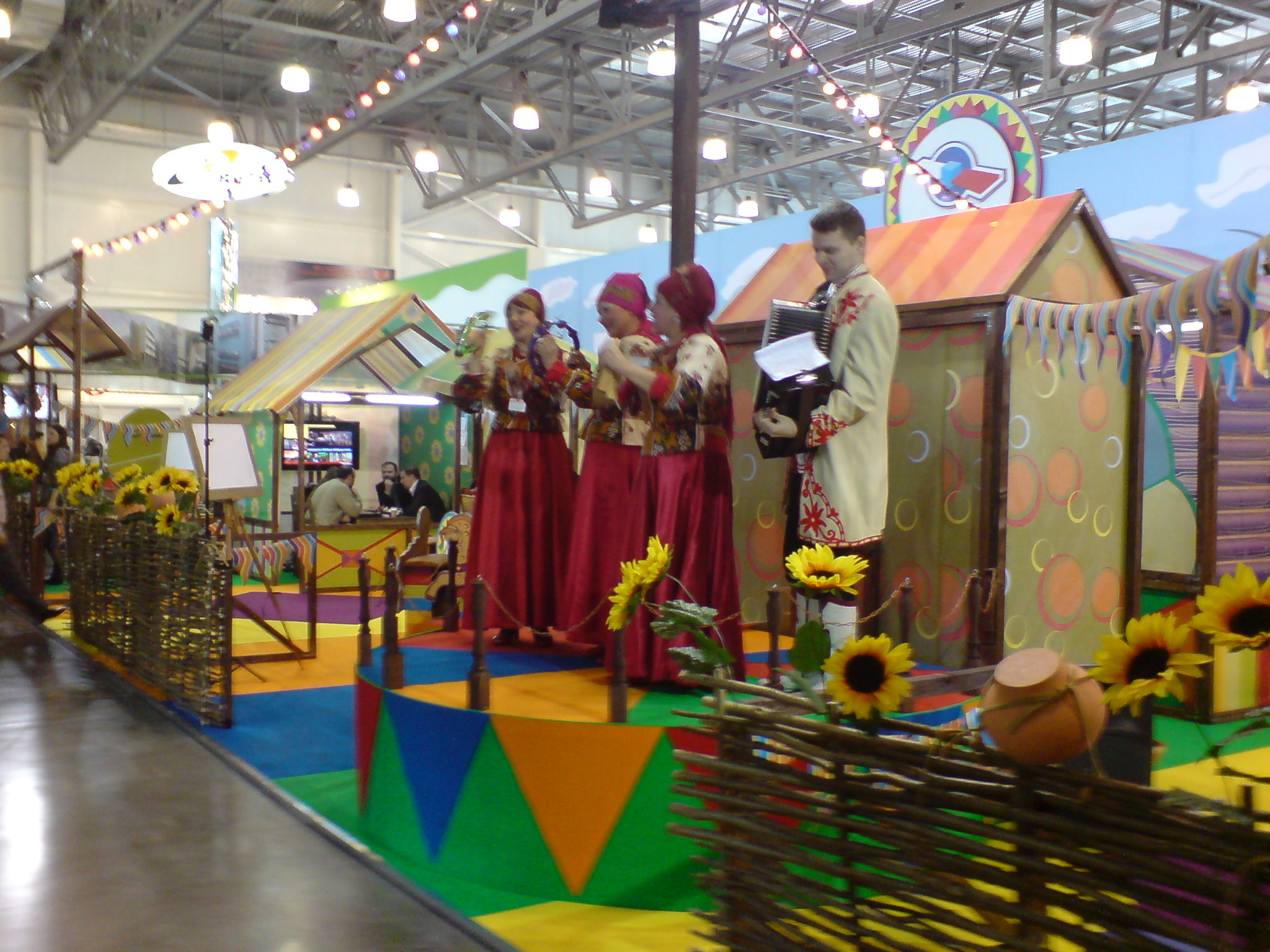 Sattelite television provider Trikolor TV on CSTB-2009, February, Moscow.